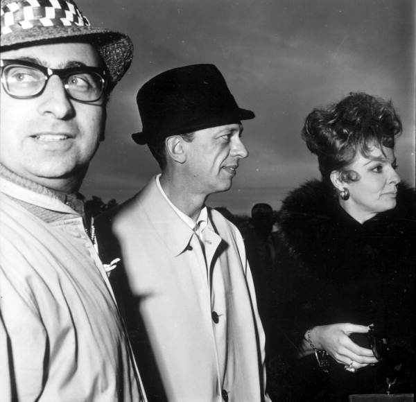 Local call number: c015710a Title: Don Knotts at the premiere of his movie: Weeki Wachee Springs, Florida. L-R: Unidentified man, Don Knotts, and Carole Cook Personal Author: Johnson Physical descrip: 1 photoprint: b&w; 4×5 in. Series Title: Commerce Collection General note: The Incredible Mr. Limpet was not filmed at the springs but the premiere was held at the springs. The audience watched it from the underwater 500-seat theater. Repository: 500 S. Bronough St., Tallahassee, FL 32399-0250 USA. Contact: 850-245-6700. Persistent URL